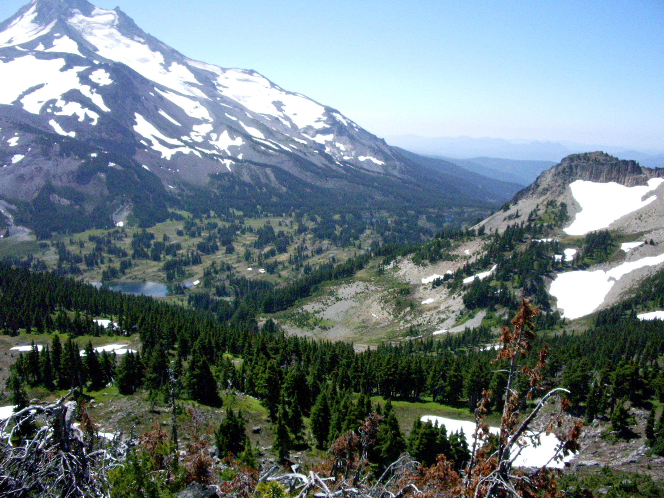 Jefferson Park, Oregon, Cascade Range, from the north ridge on the PCT